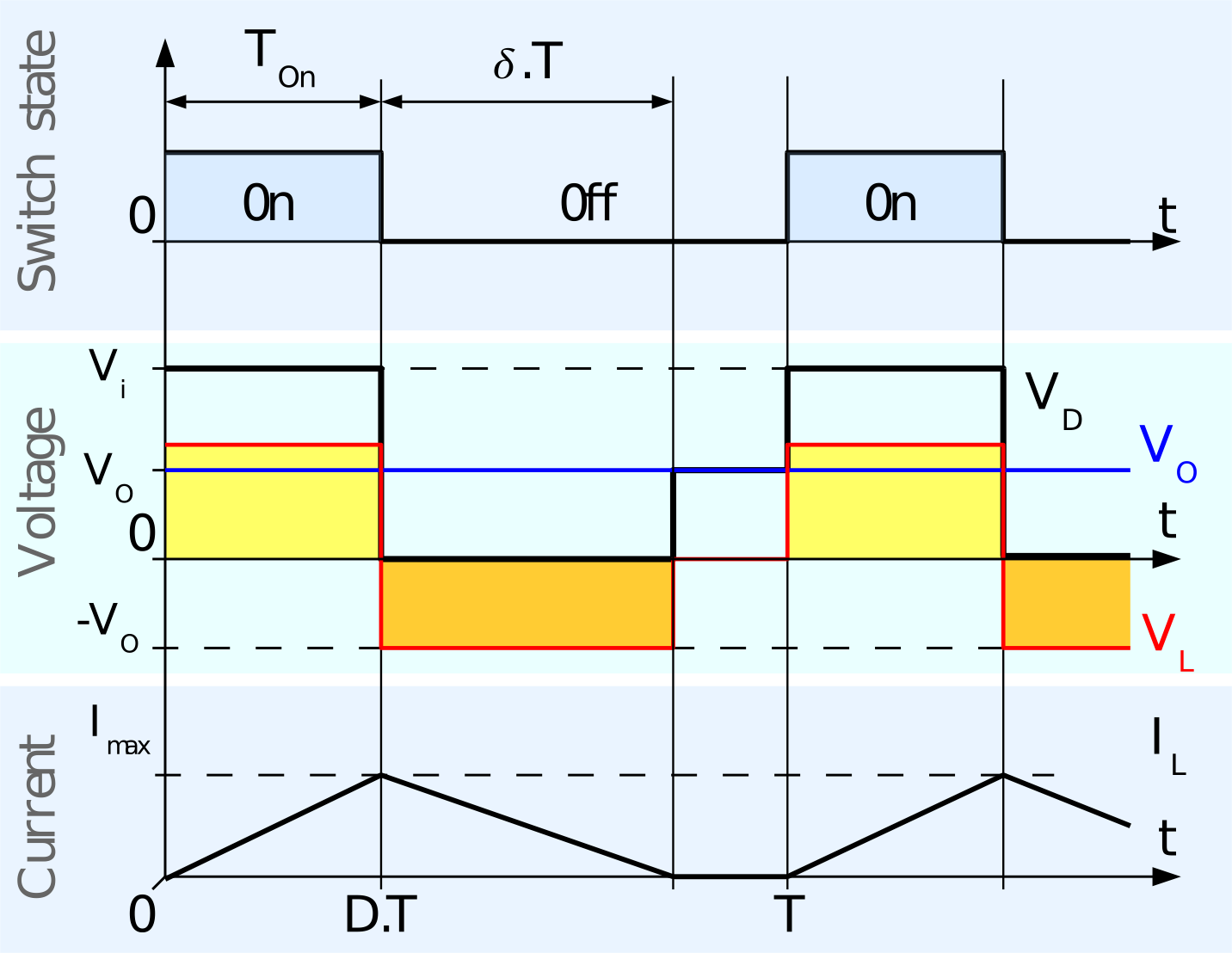 Cyril BUTTAY Waveforms of current and voltage in a buck converter operating in discontinuous mode. Although I made this figure using Inkscape, this is a png version because of the presence of one greek letter. I'll use the svg version as soon as I know how to deal with greek letters...